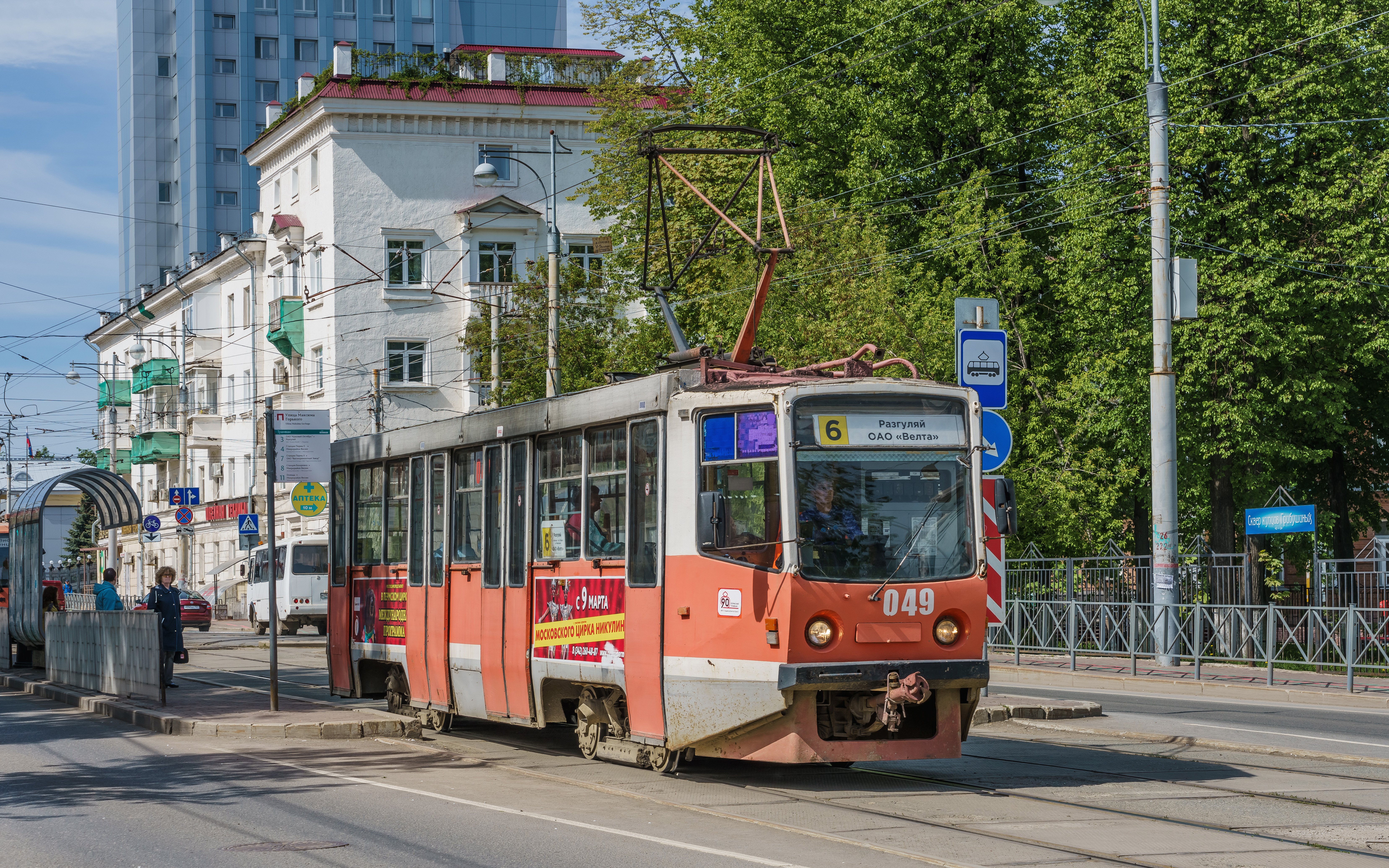 KTM-8 tram on Lenina Street (Maxim Gorky Street stop) in Perm, Russia